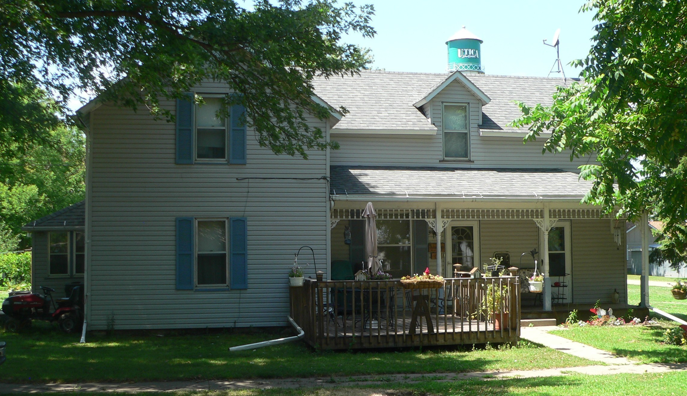 DeJong house in Utica, South Dakota; seen from the east.